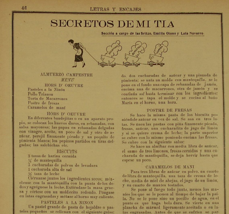 Secretos de mi tía, octubre 1926